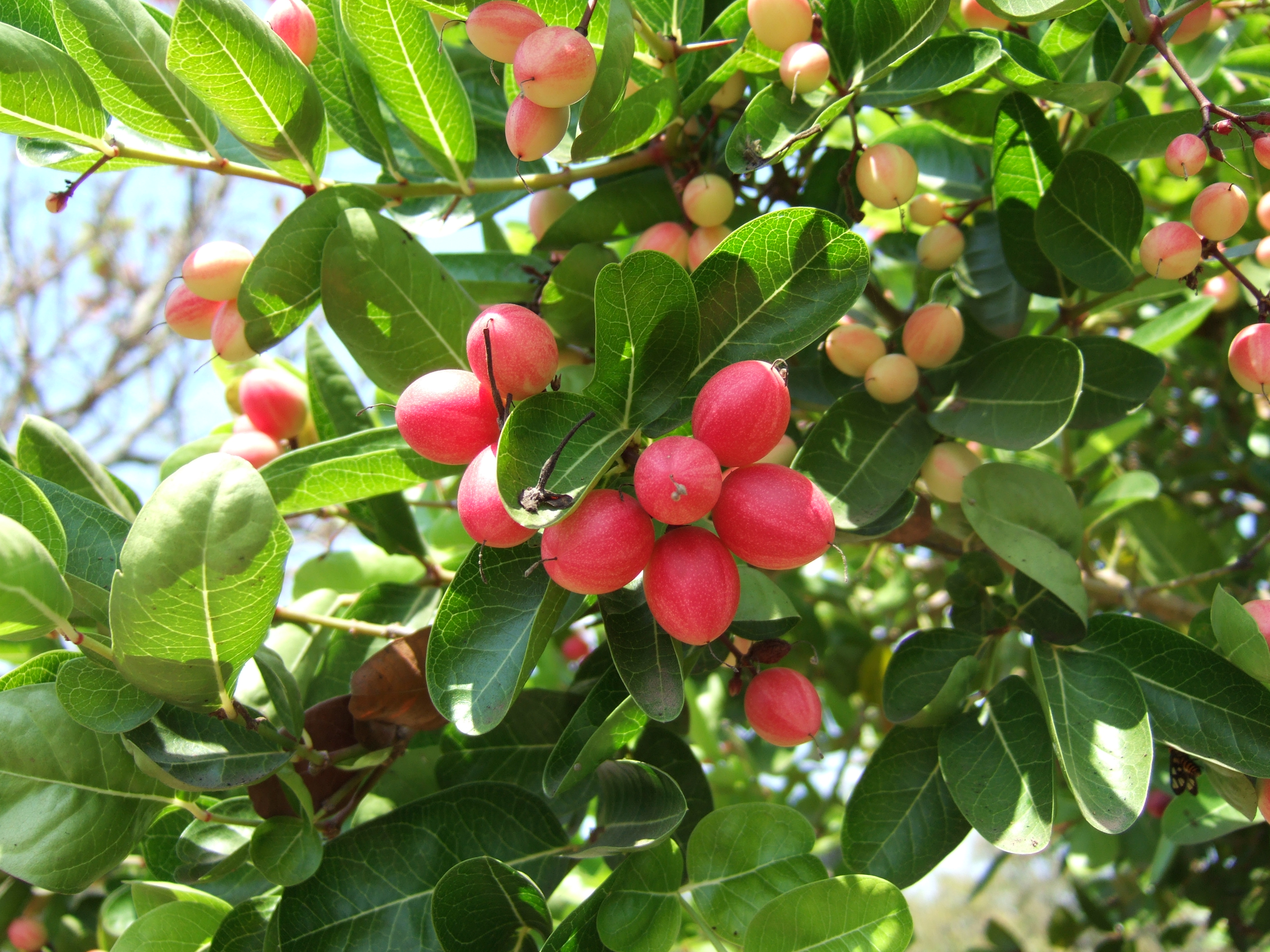 Karonda, Carissa carandas L., Taman Wisata Mekar Sari, Cileungsi, Bogor, West Java, Indonesia.